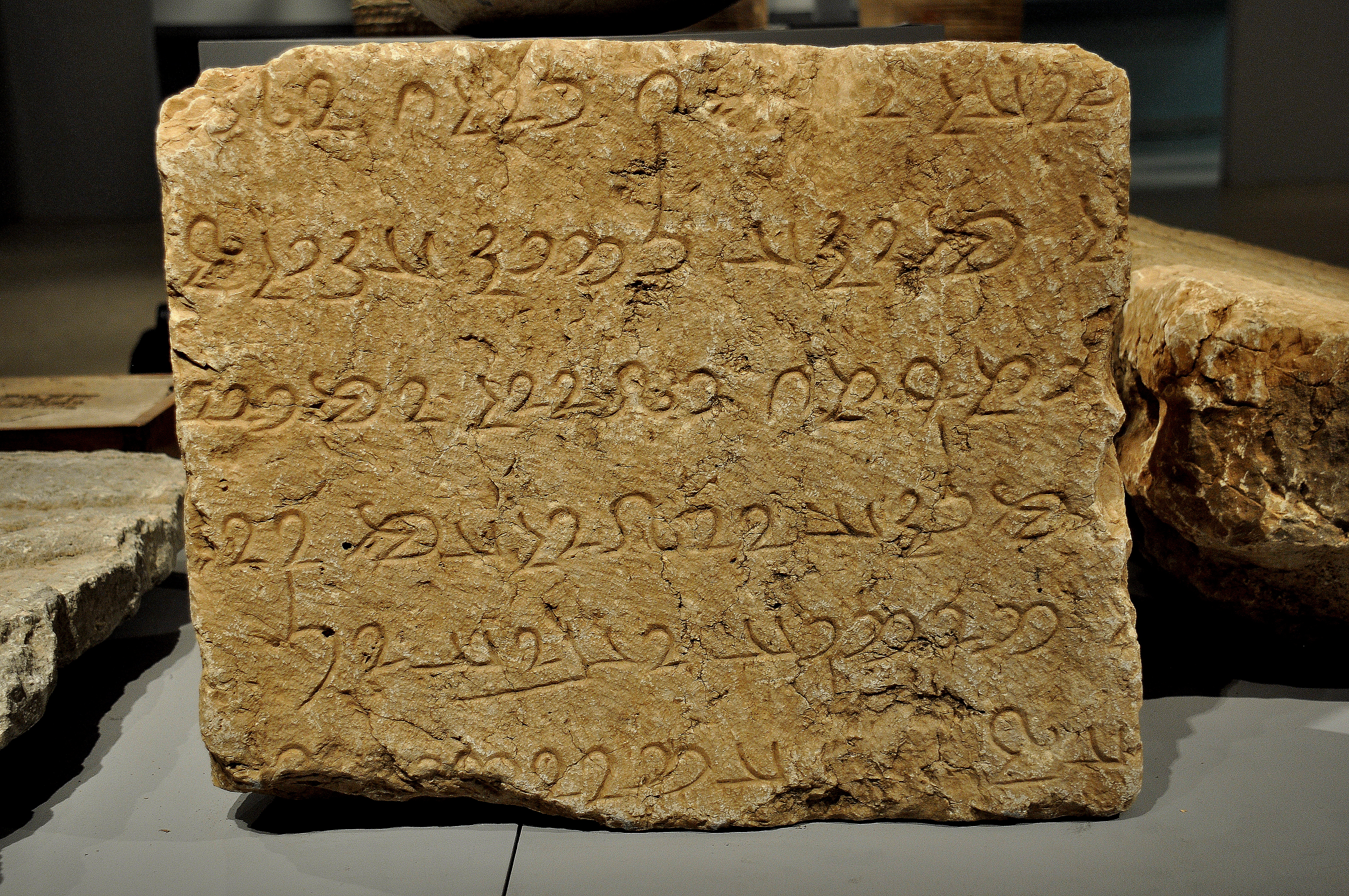 This stone block from the Paikuli tower was inscribed with middle Persian language. The block is on display in the Sulaymaniyah Museum, Iraq. One of the two inscribed blocks on display in the Sulaymaniyah Museum. The middle Persian language was used on this stone block. (Block No. PK 22; on tower No. D3 ; 56.51 x 48 x 26 cm; SM2696; acquisition year 1997)